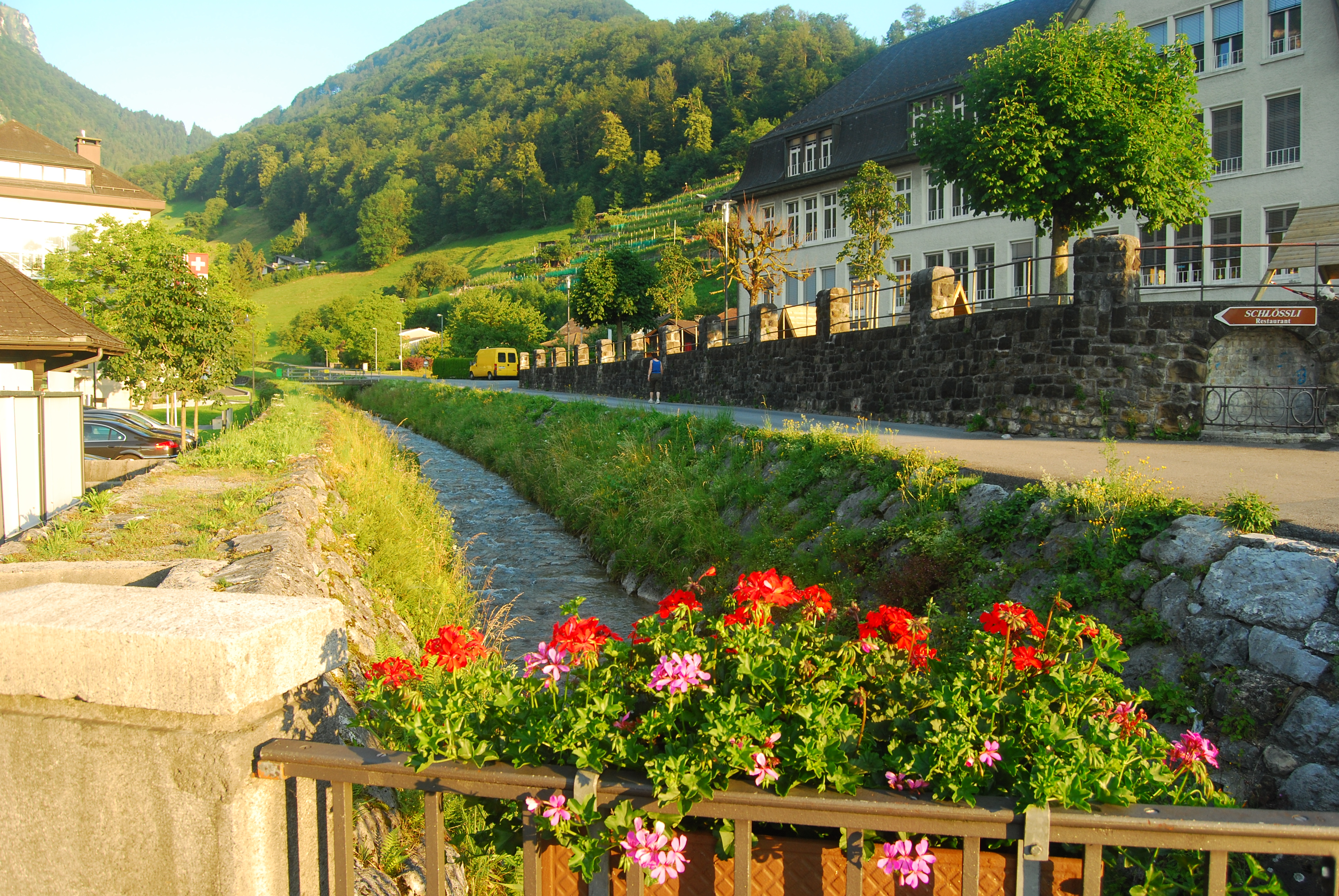 Village stream of Niederurnen, canton of Glarus, SwitzerlandEsperanto: Vilaĝa rojo de Niederurnen, Kantono Glaruso, Svislando